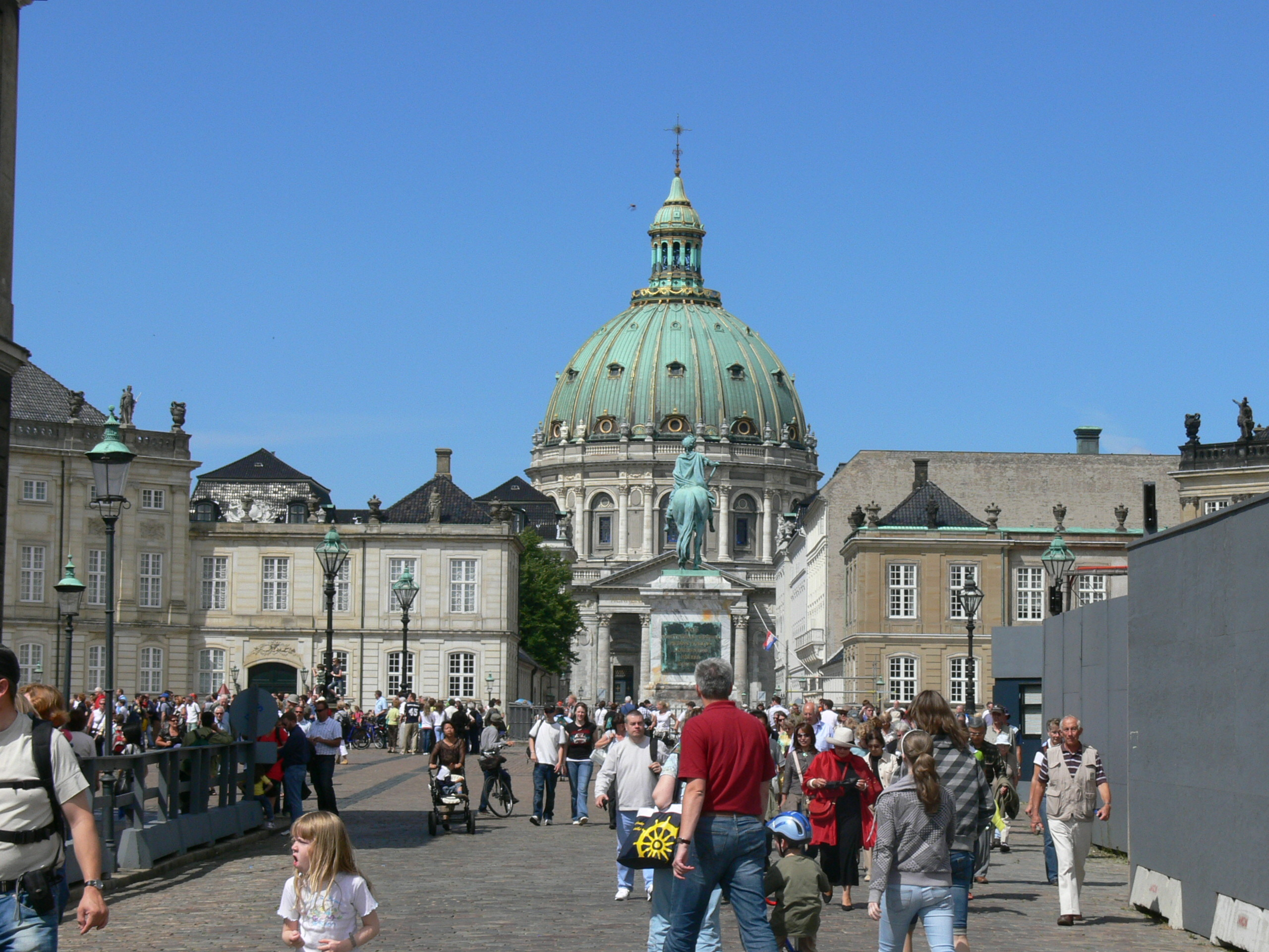 Amalienborg Palace ( Copenhagen ). Palace square with marble church.